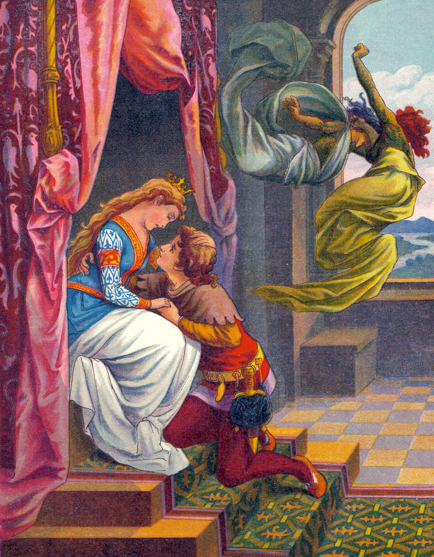 From Josephine Pollard's children's book Hours in Fairy Land: Enchanted Princess, White Rose and Red Rose, Six Swans (1883). Artist unknown. The illustration depicts a scene from Ludwig Bechstein fairy tale "The Enchanted Princess".